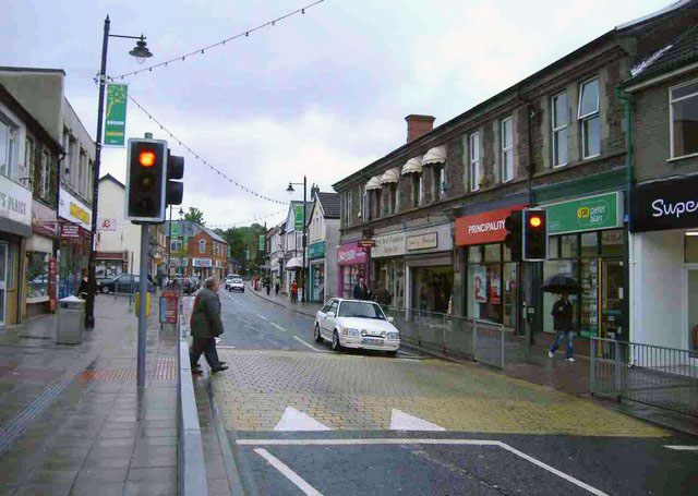 A view of the High Street, Blackwood, Caerphilly Borough, Wales